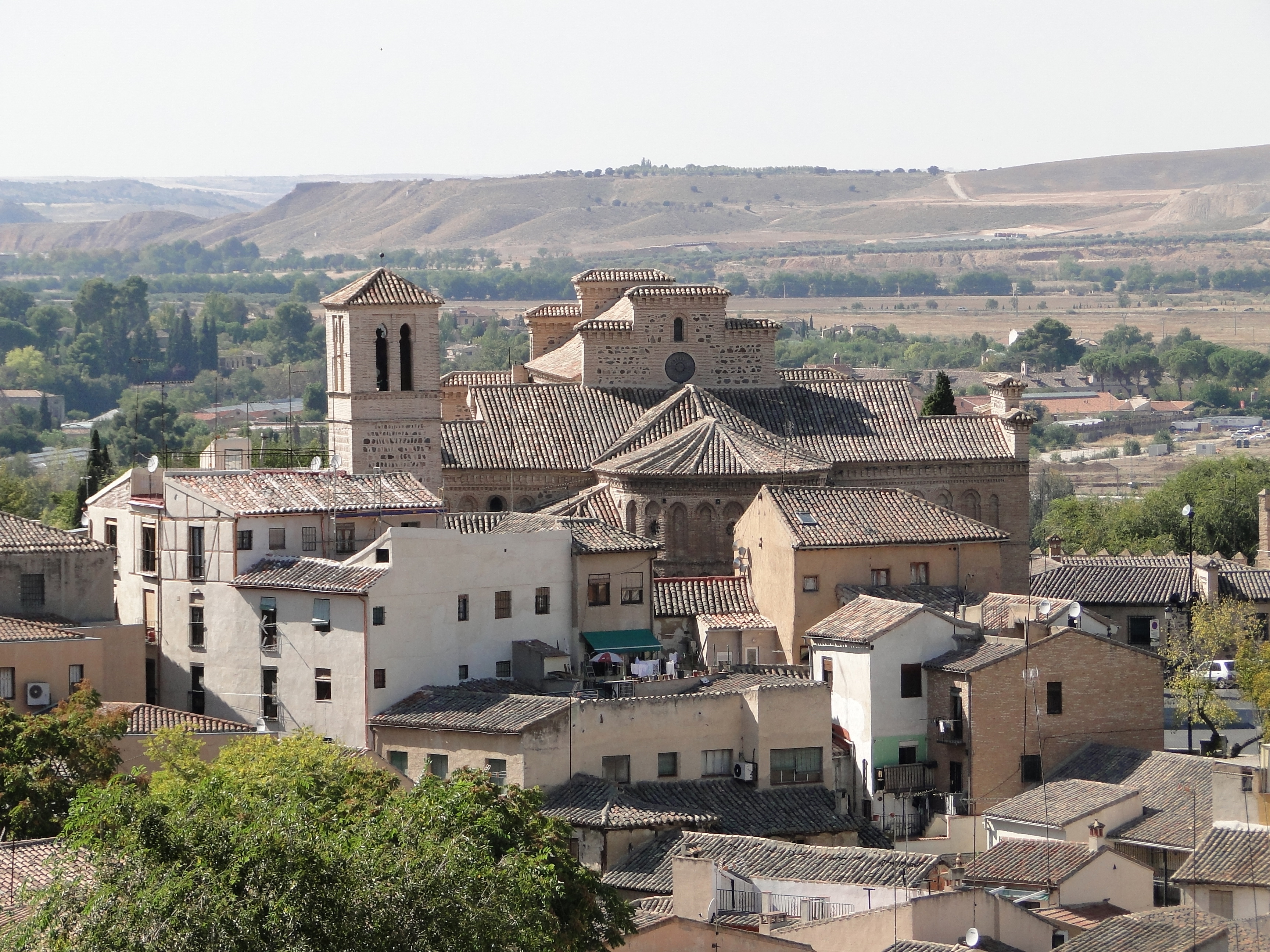 Church of Santiago del Arrabal, Toledo, Spain